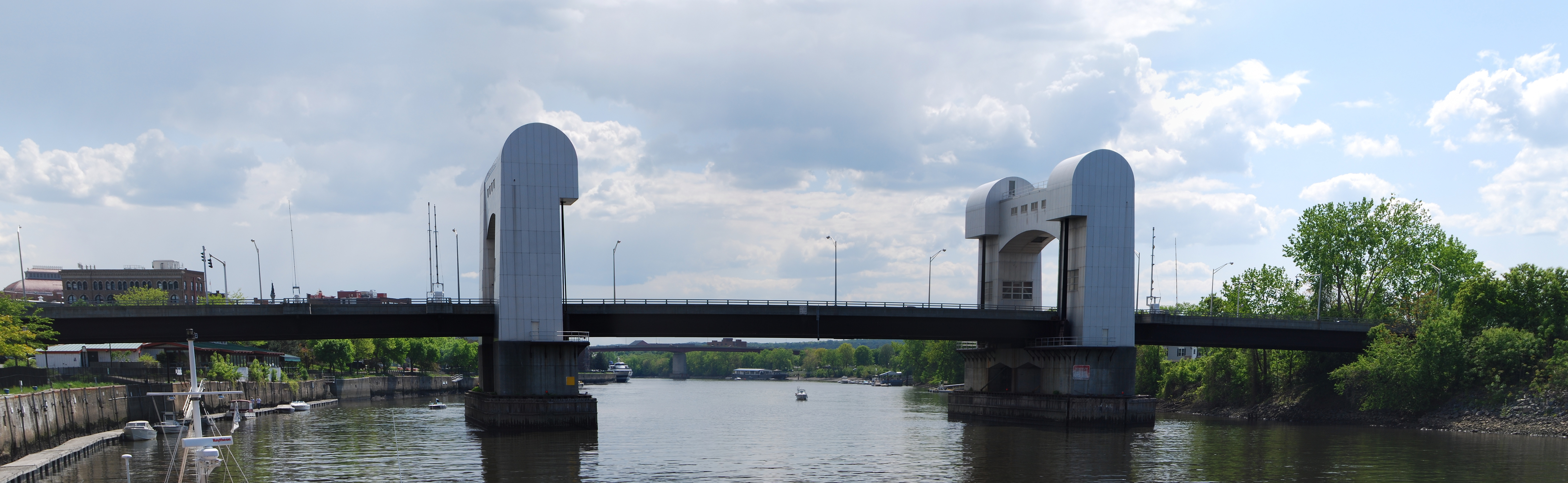 Troy-Green Island Bridge, a bridge over the Hudson River that connects the cities of Troy and Green Island in New York, United States